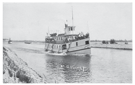 Steamer Varuna transits the the Murray Canal, in 1910